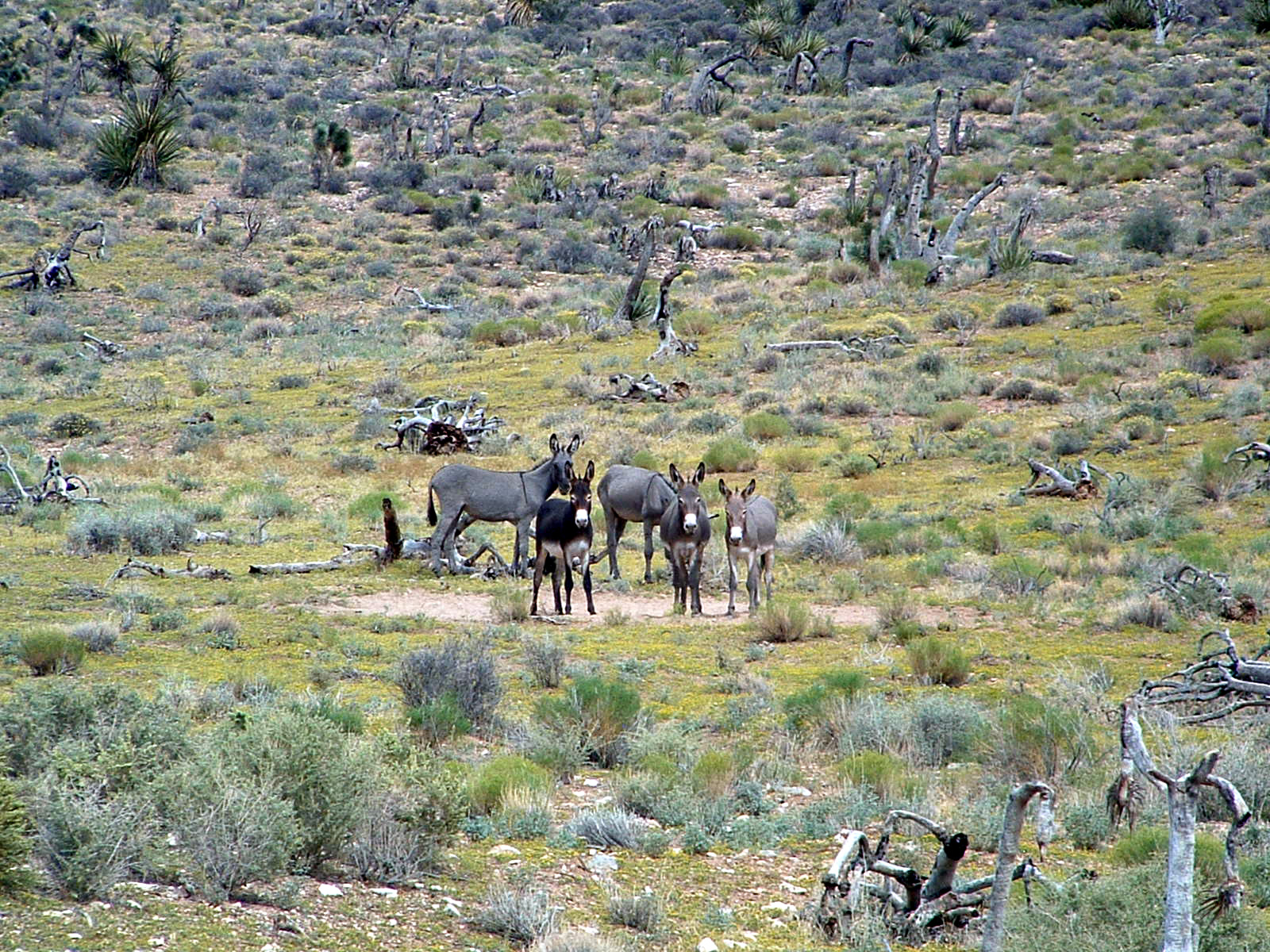 Native dwellers. Part of the wild burro population outside Las Vegas.